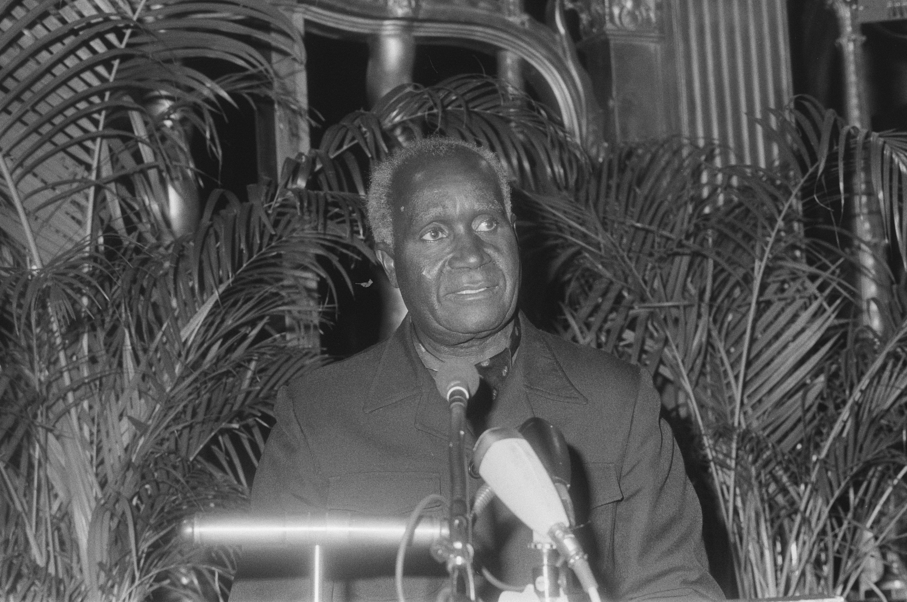 President Kaunda of Zambia speaking in the Nieuwe Kerk in Amsterdam (The Netherlands), 15 april 1986